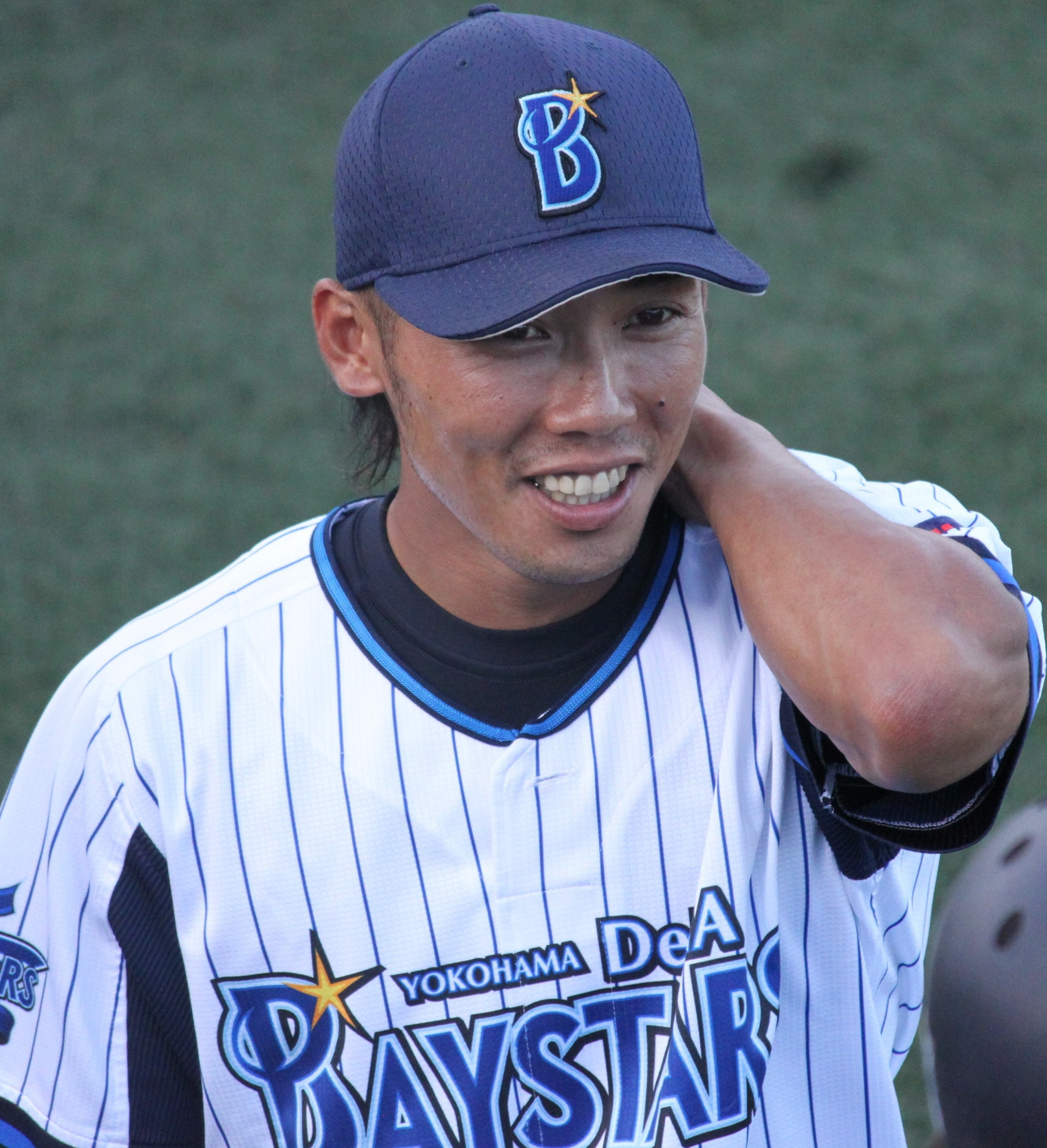 Kensuke Uchimura, infielder of the Yokohama DeNA BayStars, at Yokosuka Stadium.